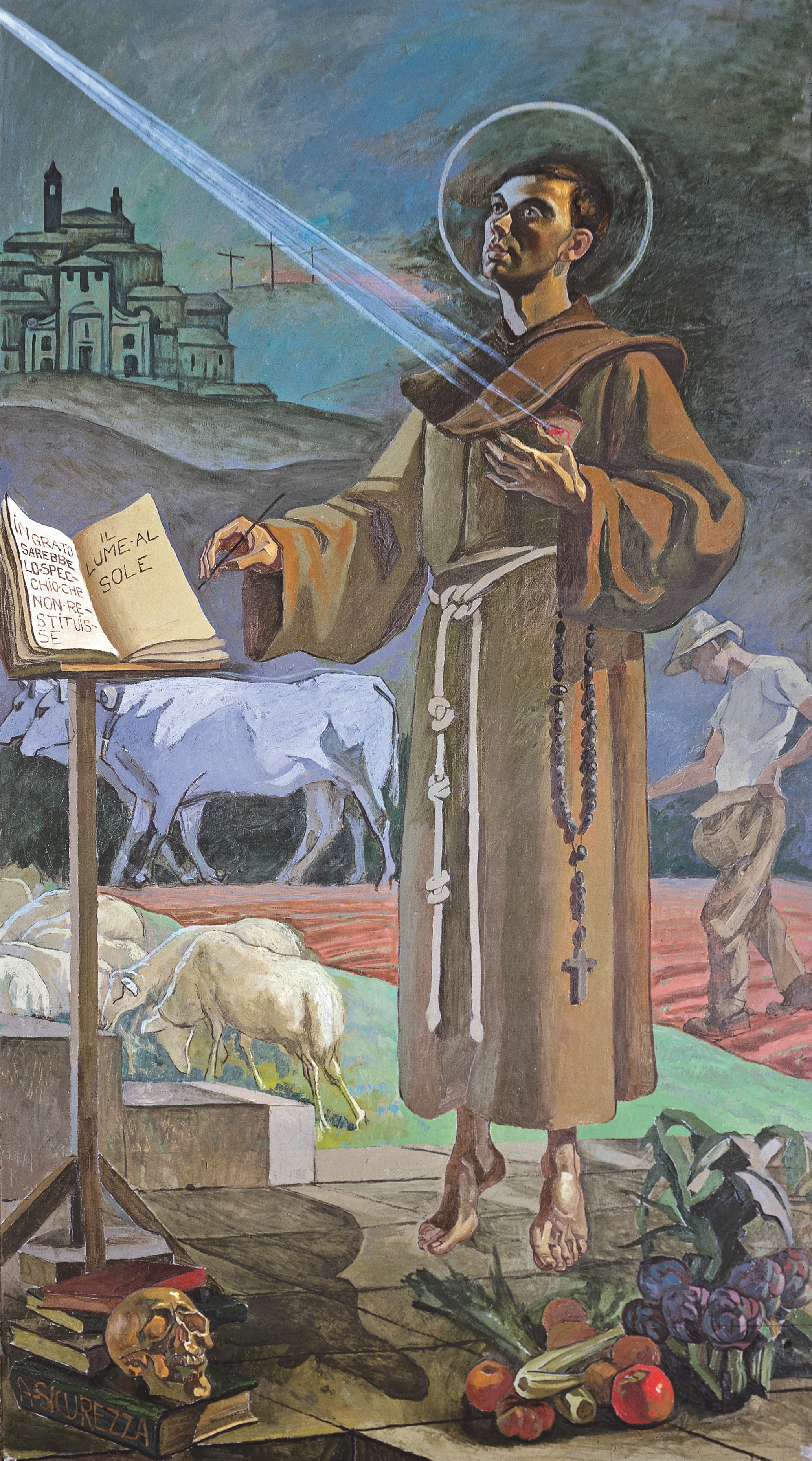 Saint Charles from Sezze, Immaculate's church, Latina